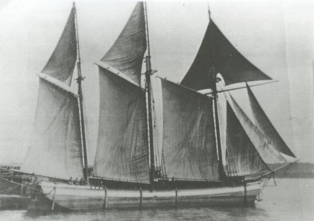 The scow schooner Dan Hayes with a Rafee style topsil on her foremast